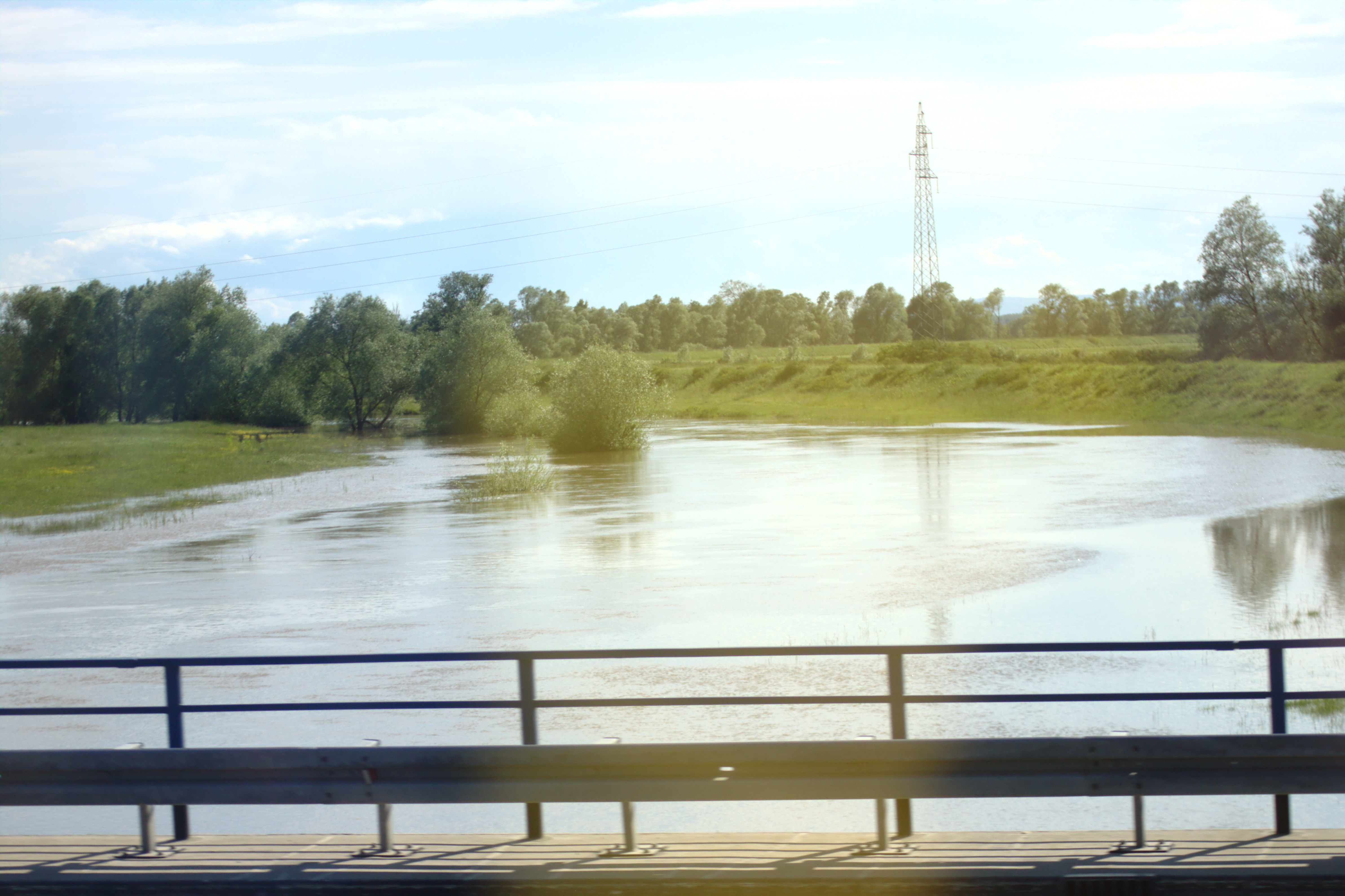 Česma river in Croatia, during 2014 Spring flood